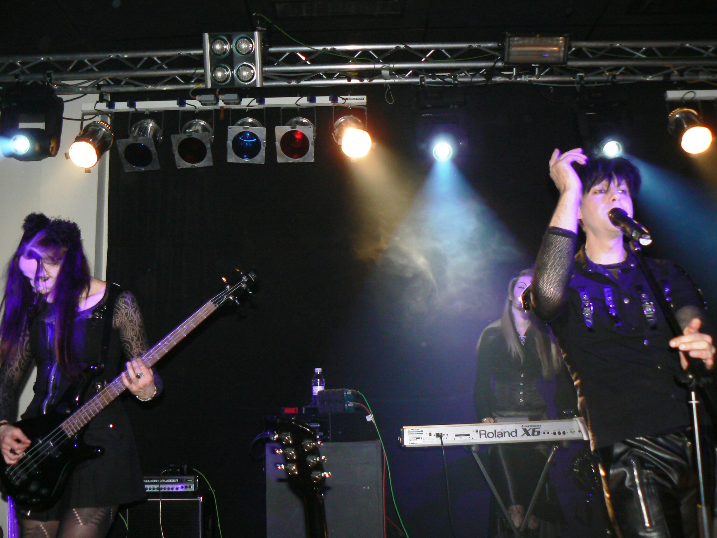 Clan of Xymox at a concert in Bulgaria